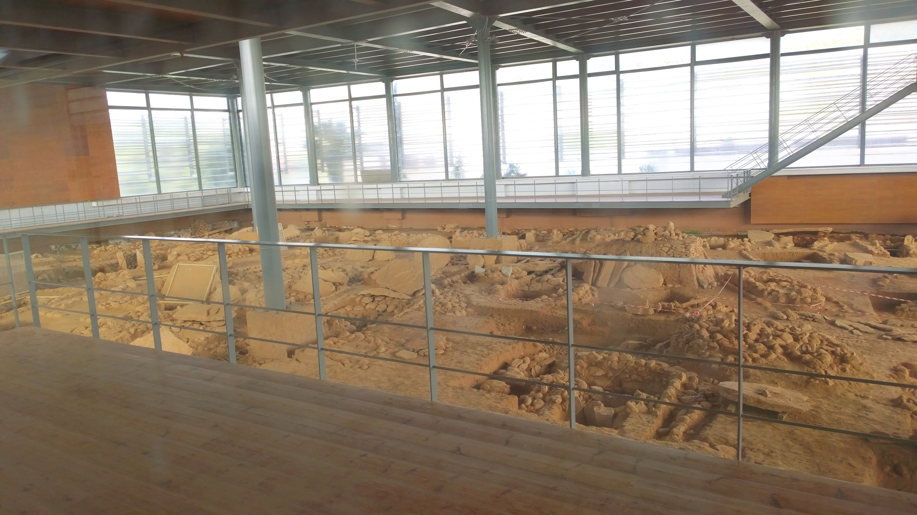 Early Helladic Cemetary near Vranas